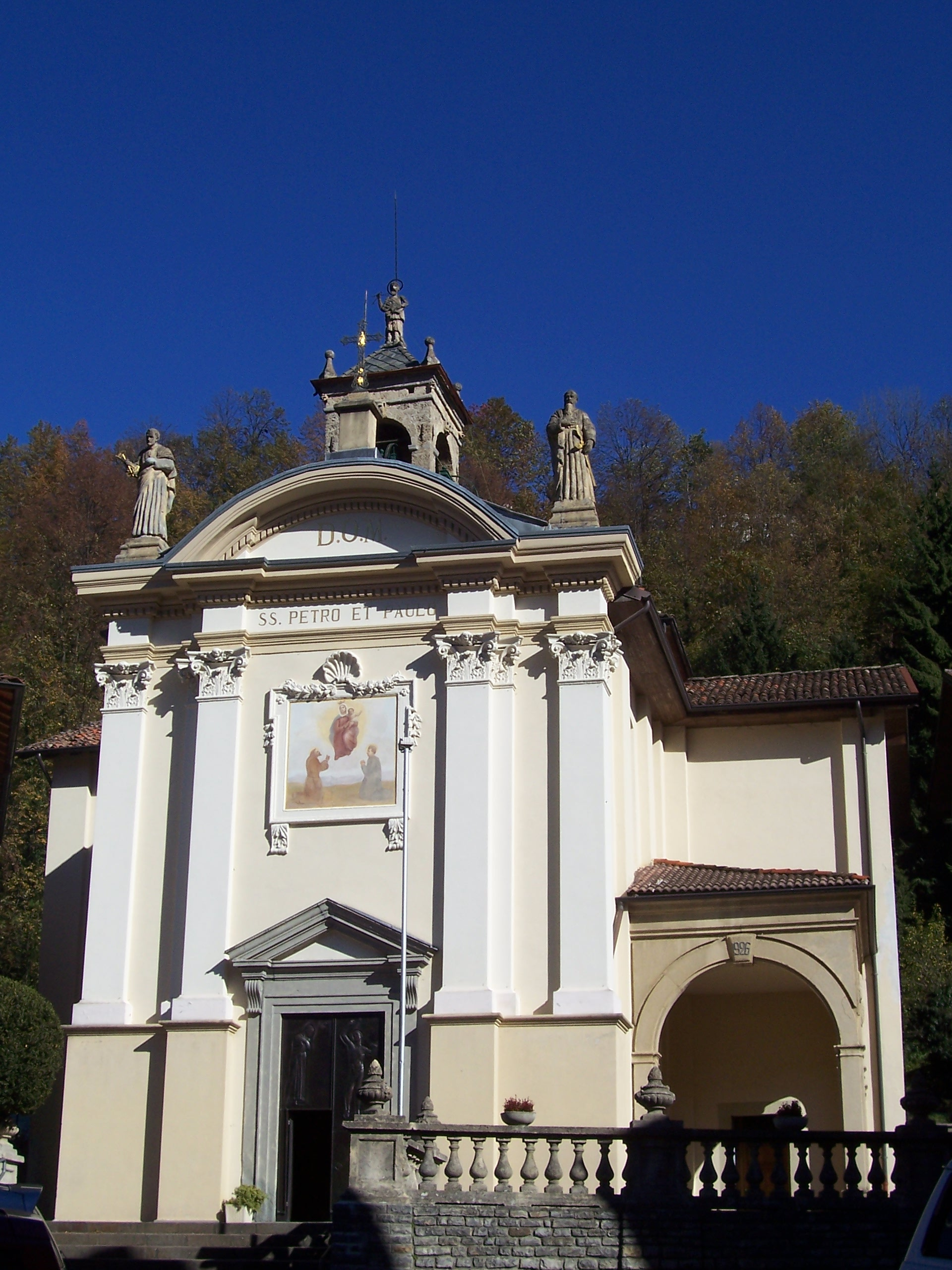 St. Peter and Paul's church in Olda (Taleggio, BG), Lombardy, Italy